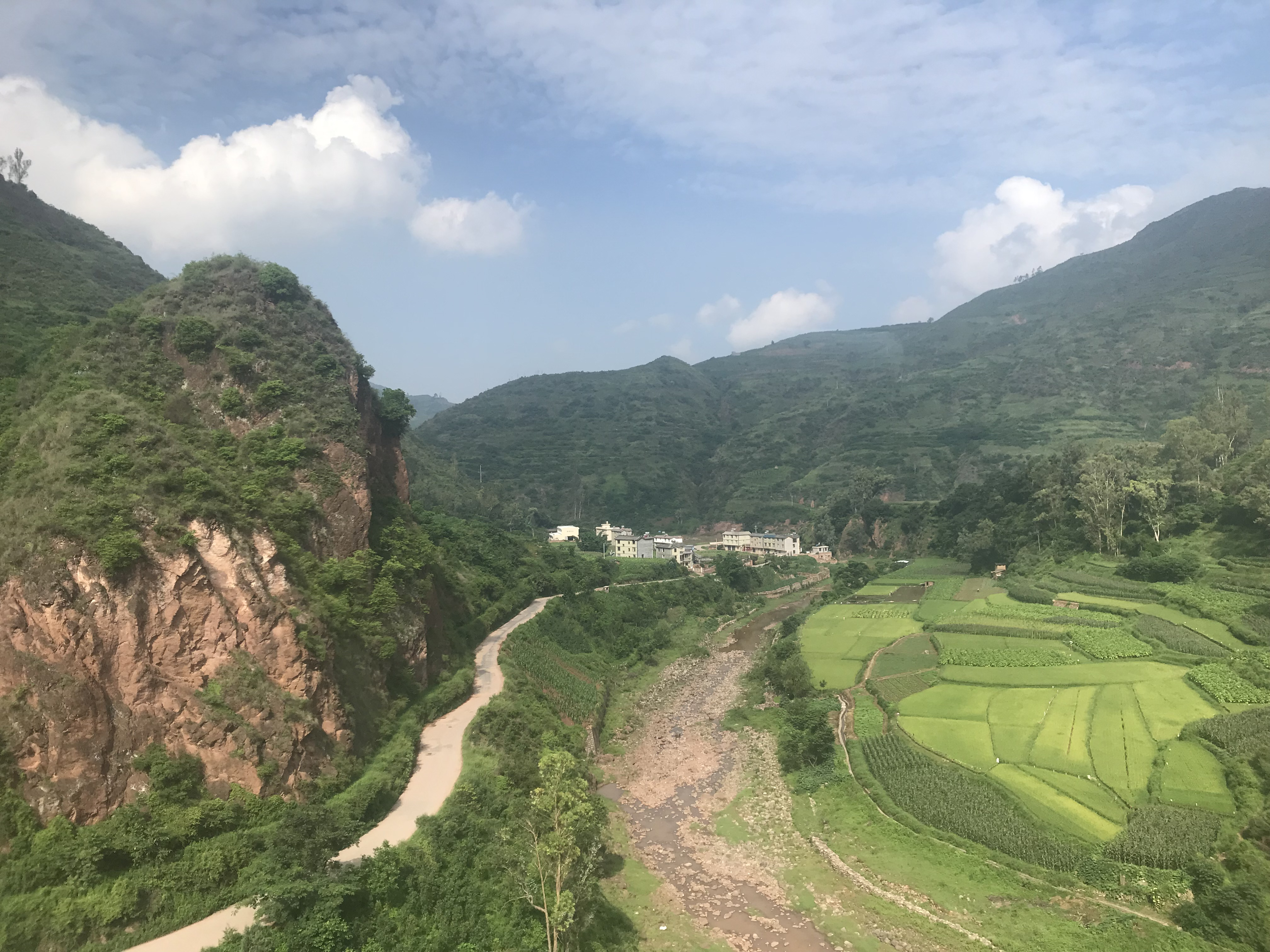 Quite different from what I thought